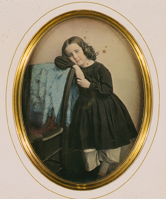 Portrait of an unidentified girl